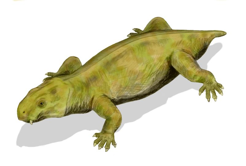 Dicynodon lacerticeps, a Dicynodont from the Upper Permian of South Africa, pencil drawing